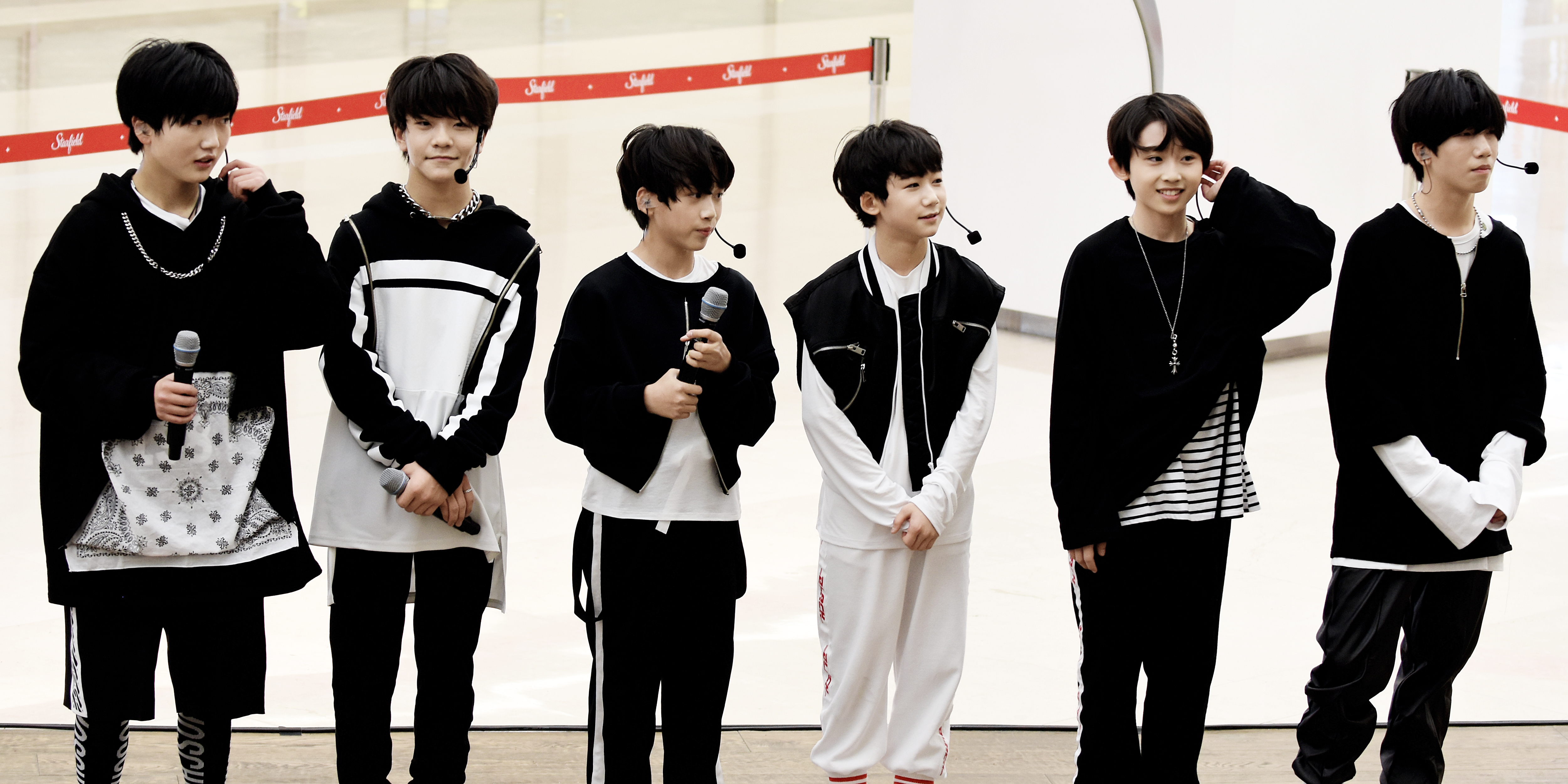 Boy Story busking at COEX's Live Plaza in Seoul on April 6, 2019.